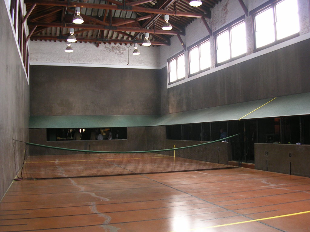 Interior of the Aiken Tennis Club constructed in 1902 at 146 Newberry Street, SW in Aiken, South Carolina, USA. View of the court's service side taken from the hazard side. 33°33′34″N 81°43′16″W / 33.55944°N 81.72111°W